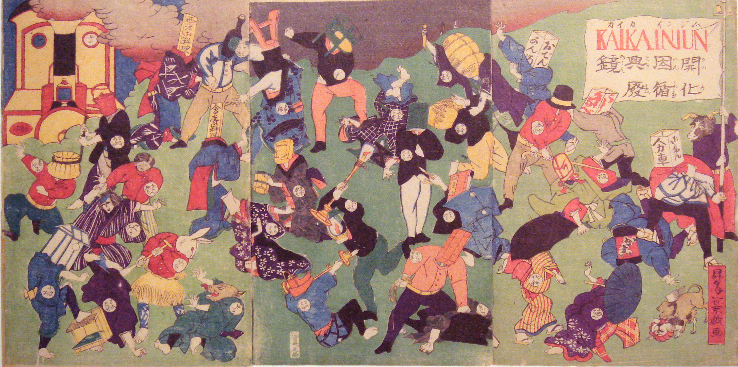 The New fighting the Old in early Meiji Japan circa 1870